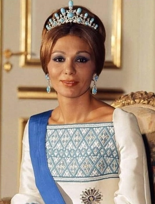 Farah Pahlavi